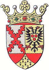 Coat of arms of Eijsden, province of Limburg, The Netherlands.